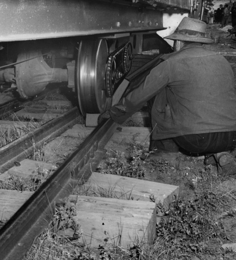 Photo of a minor derailment of a Galloping Goose. A crew member places a device under the wheel to get it back on track.